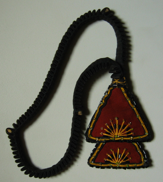 Lestovka of Pomor Old belivers